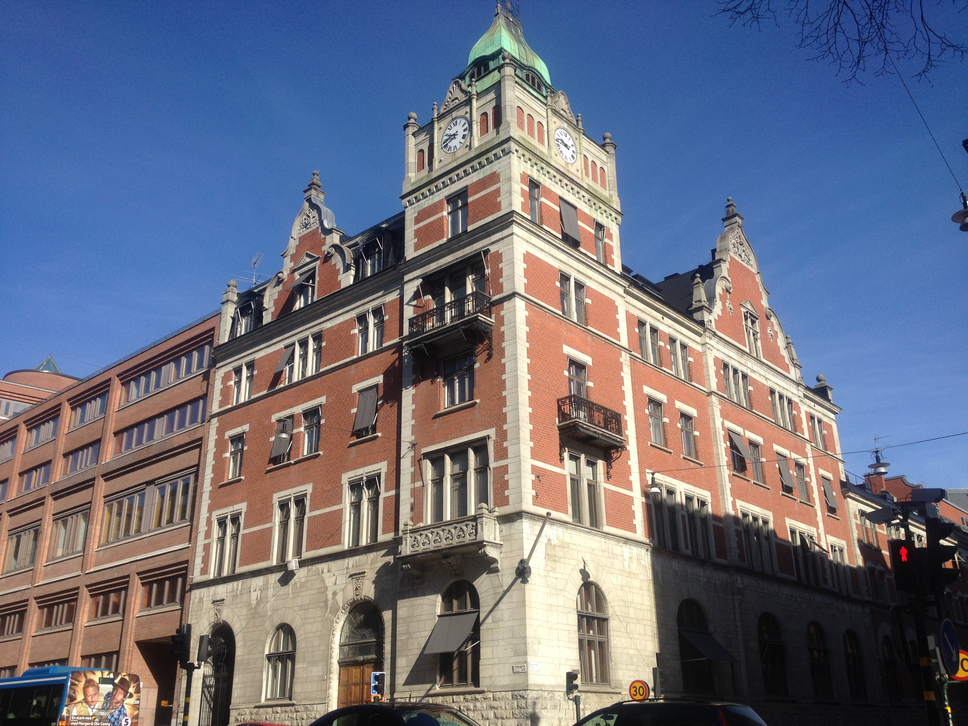 AB Separator, officebuilding at Fleminggatan, Stockholm, Sweden. Built 1899-1901, architect Johan Laurentz